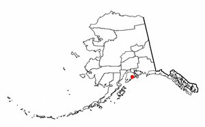 Adapted from Wikipedia's AK borough maps by Seth Ilys.